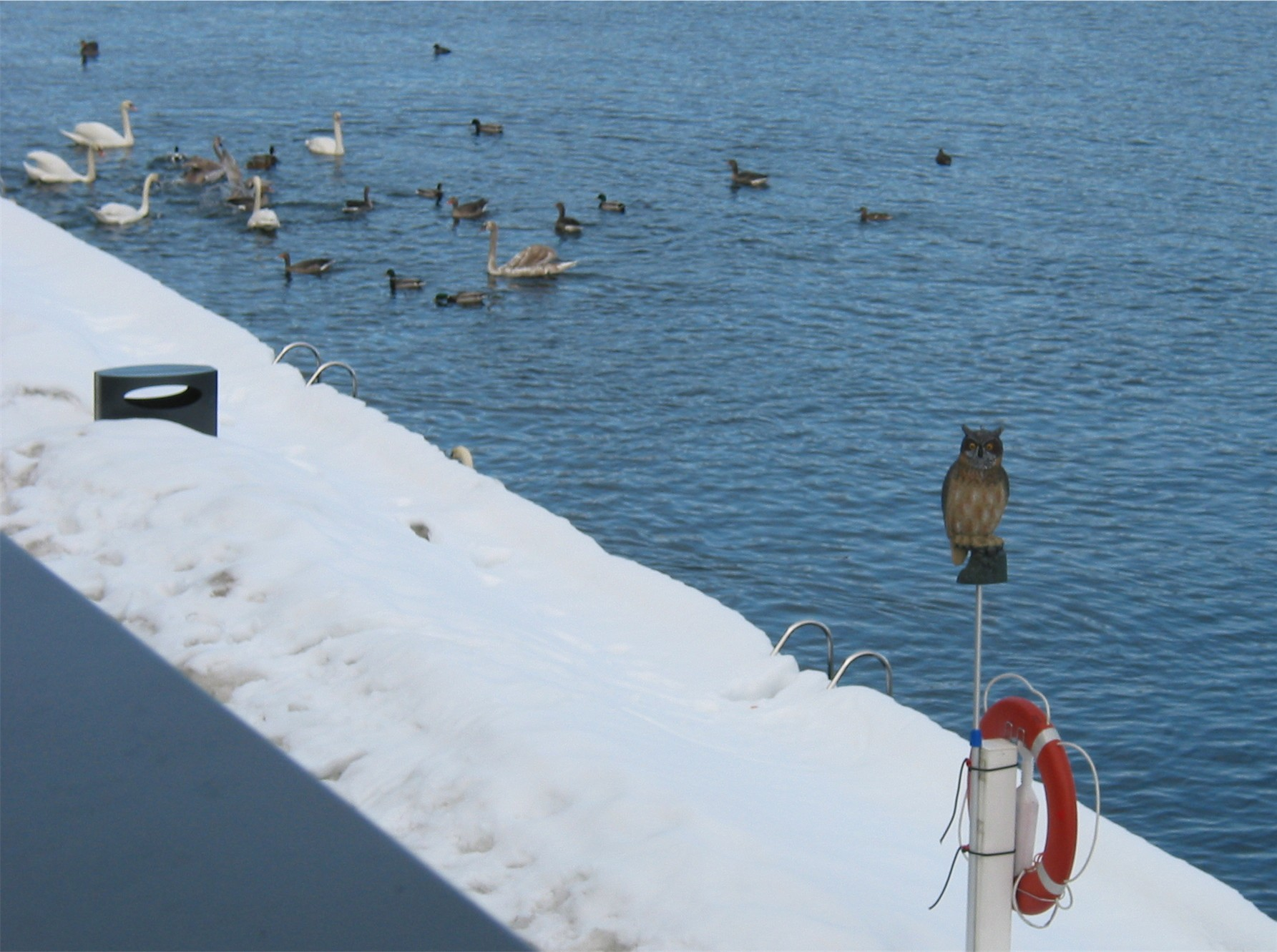 A fake owl used as a scarecrow at Lysaker harbor.